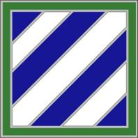 U.S. Army's 3rd Infantry Division (3rd ID) Combat Service Identification Badge